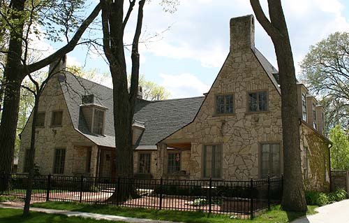 Barfield-Staples House, Whitefish Bay, National Registered Historic Place.